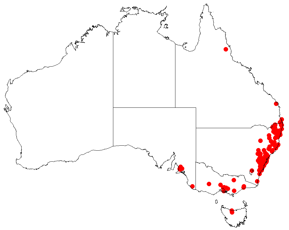 Hakea salicifolia Occurrence data downloaded from Australasian Virtual Herbarium on 22 November 2018 using